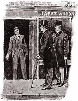 Illustration of the Sherlock Holmes short story The Red-Headed League, which appeared in The Strand Magazine in August, 1891. Original caption was "THE DOOR WAS INSTANTLY OPENED."